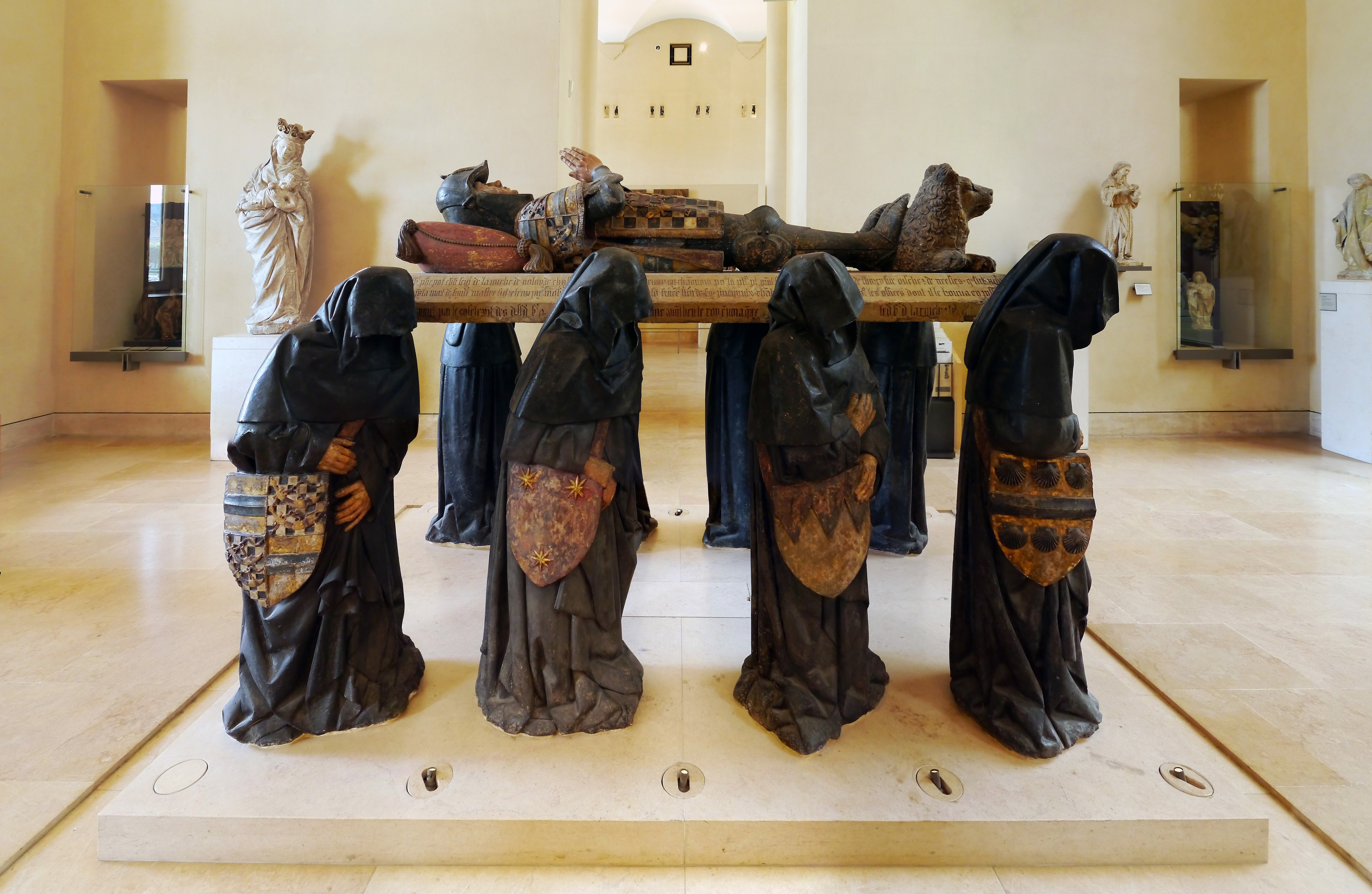 Tomb of Philippe Pot, grand seneschal of Burgundy, represented laid on a bed in knightly attire, with a lion lying at his feet; the catafalque is supported by eight pallbearers clad in hooded black habits. From the chapel of St John the Baptist in the abbey of Cîteaux.